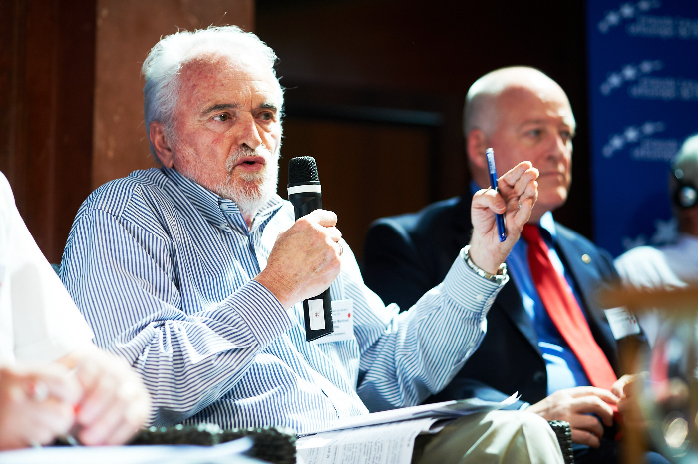 Miguel Ángel Martínez Martínez, in the "Africa: Building on growth" meeting (2011)